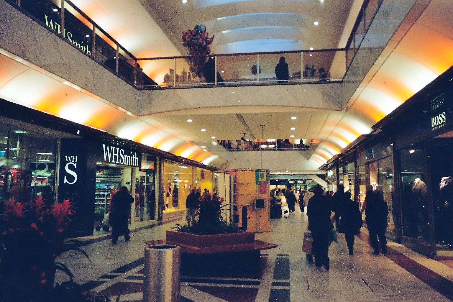 The ground floor of Brent Cross shopping centre. Opened in 1976, it was the first of its kind in the UK.